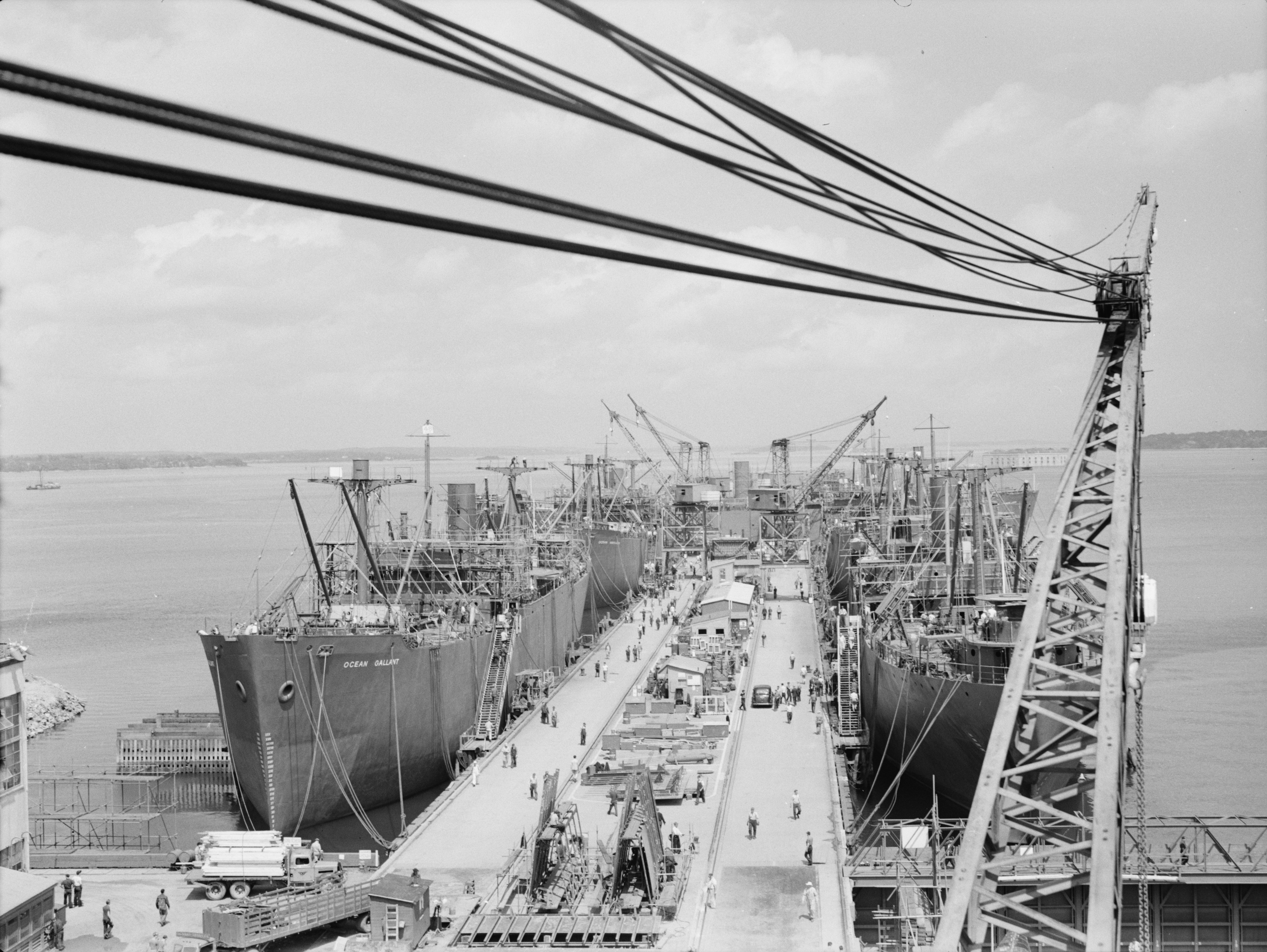 Ships launched at South Portland, Maine. Some of the five British cargo ships built under lend-lease at a large New England yard and launched along with two destroyers and one liberty ship at a record-breaking mass launching on August 16, 1942